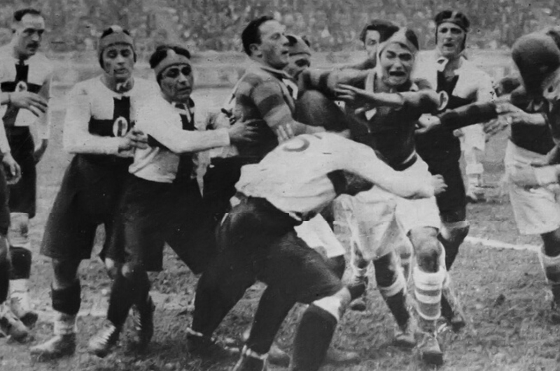 A maul during S.S. Ambrosiana Rugby - Paris Université Club at Arena Civica in Milan. Ambrosiana was then the rugby branch of FC Internazionale Milano and subsequently went on as autonomous club known as Amatori Rugby Milano.